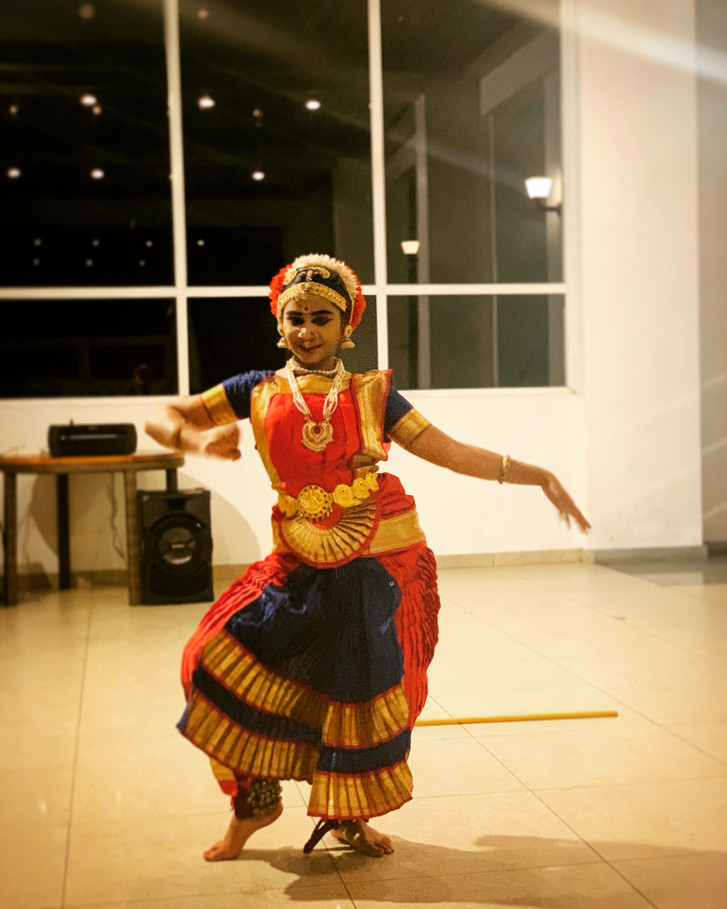 Bharatanatyam dancer at a performance in Munnar, India. This photo has been taken in the country: India